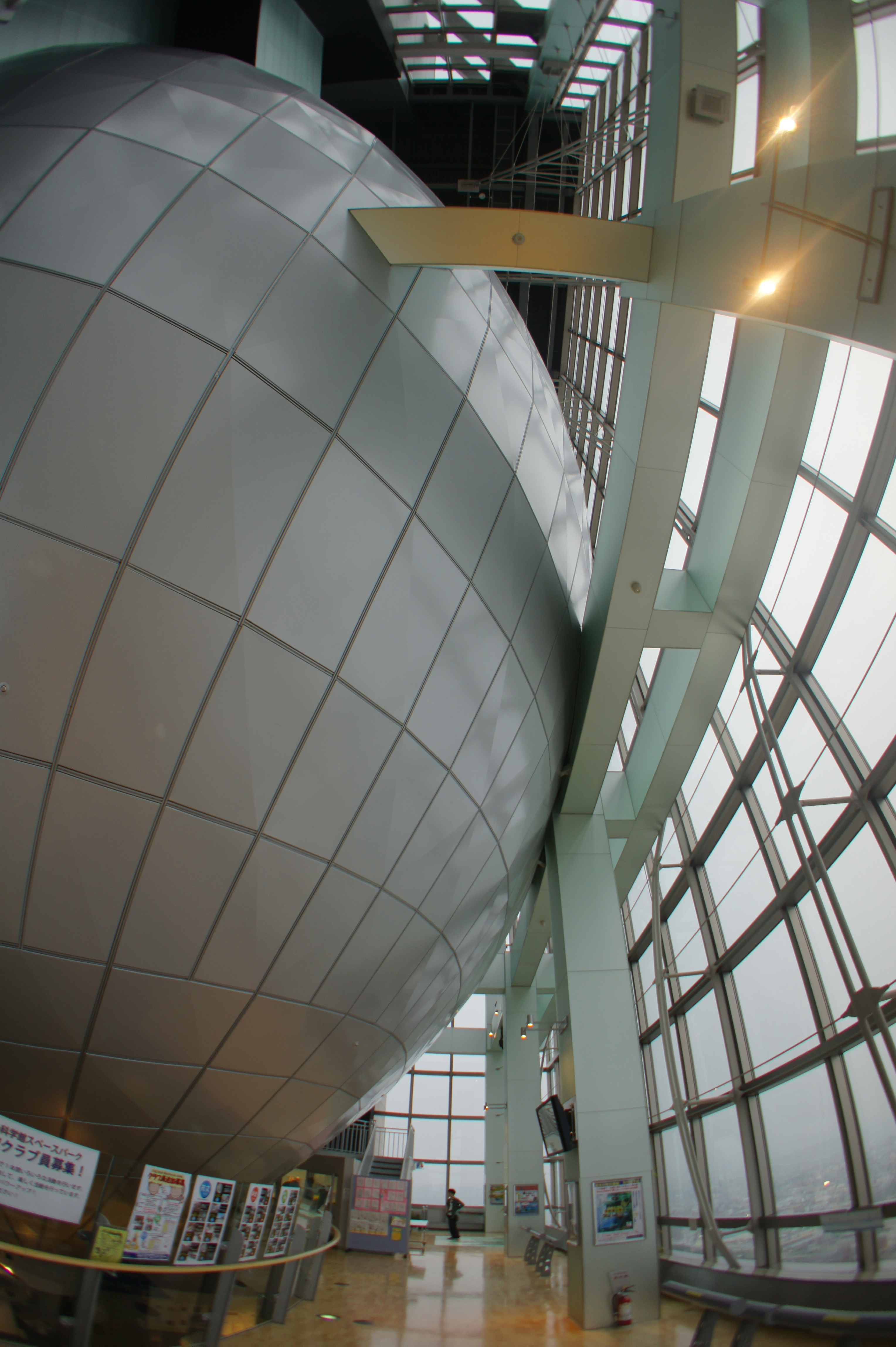 Interior of the Koriyama City Fureai Science Center